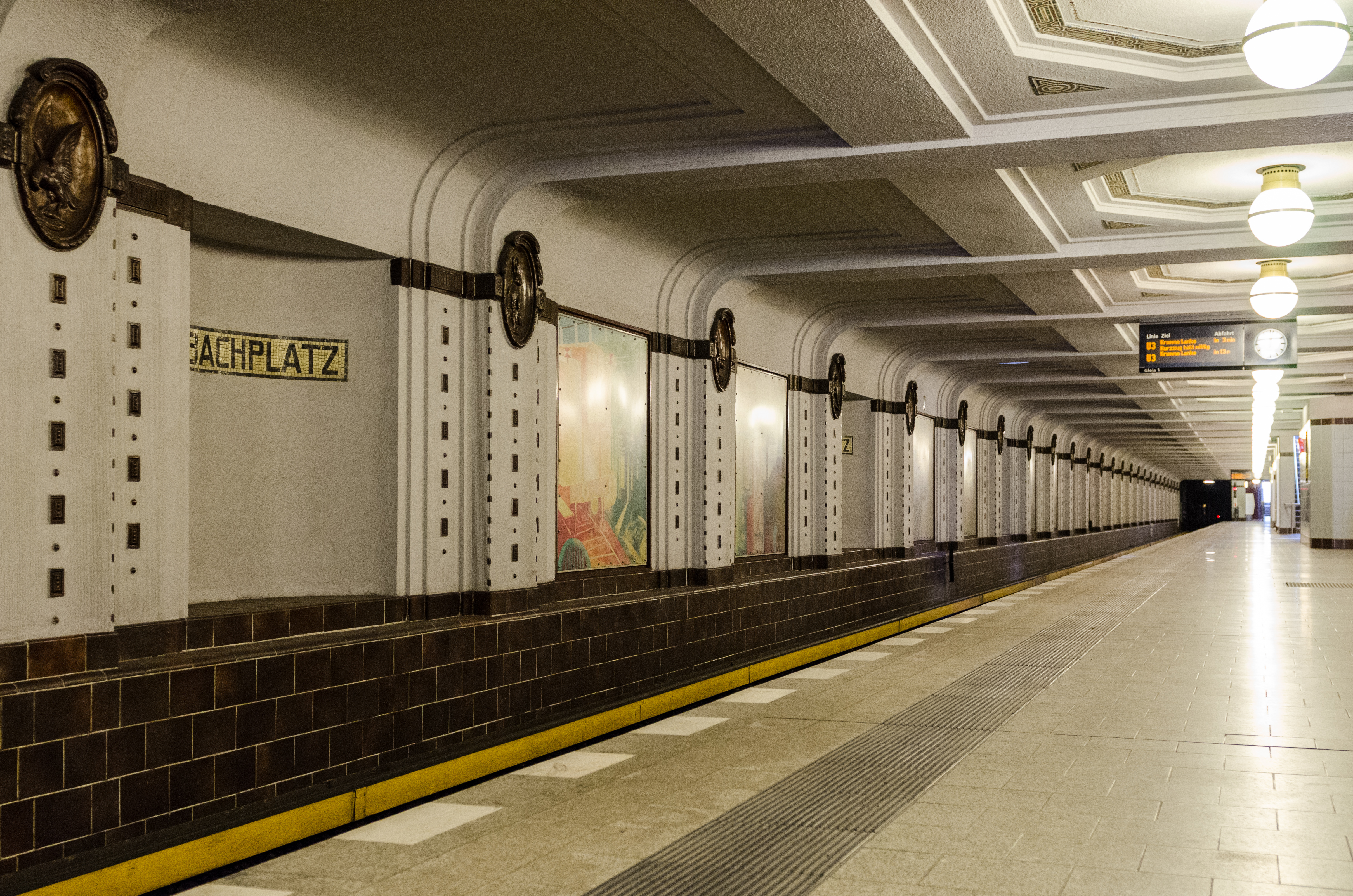 The Berlin subway station Breitenbachplatz located in Berlin-Dahlem